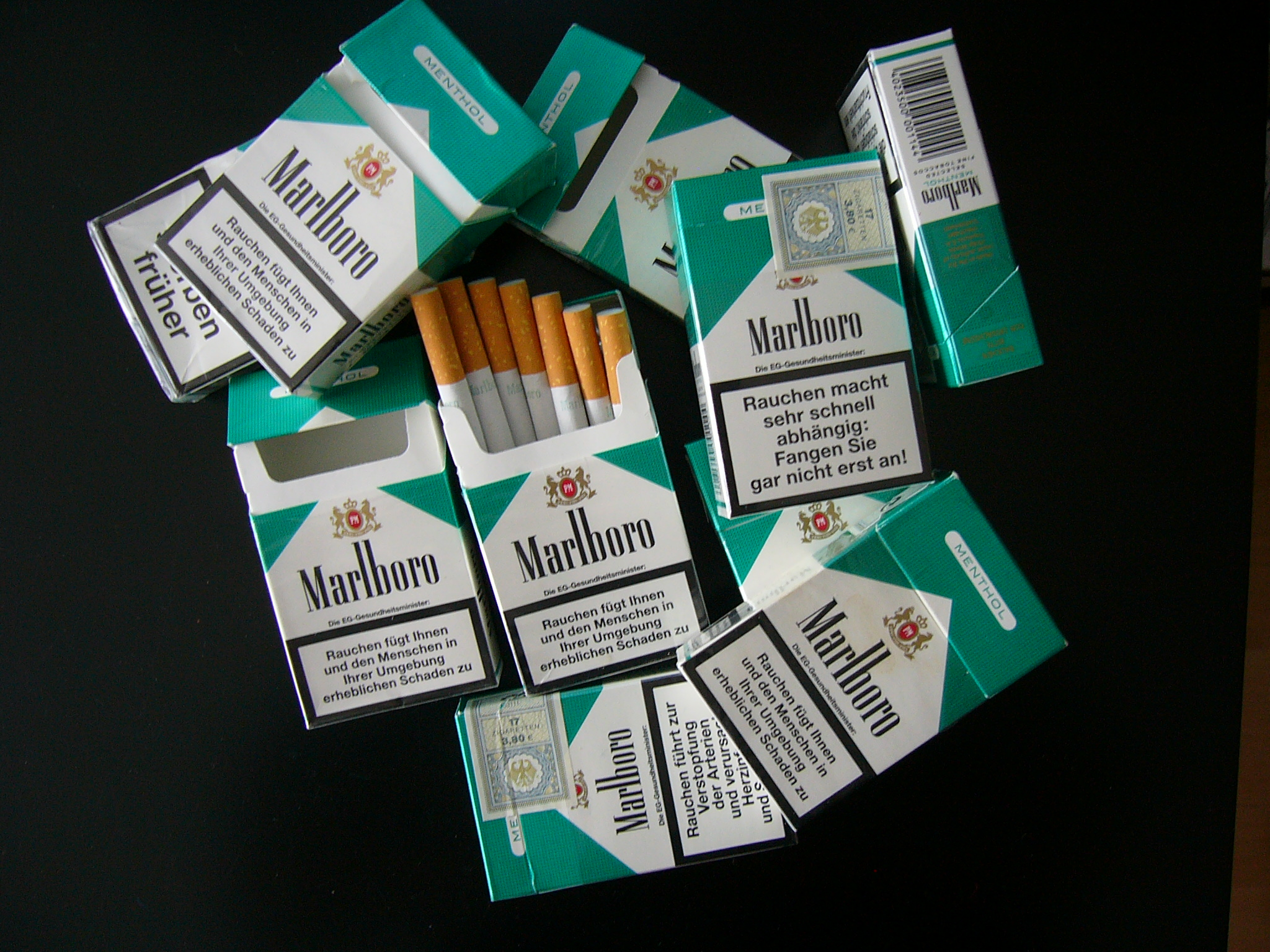 Marlboro Menthol cigarette boxes.